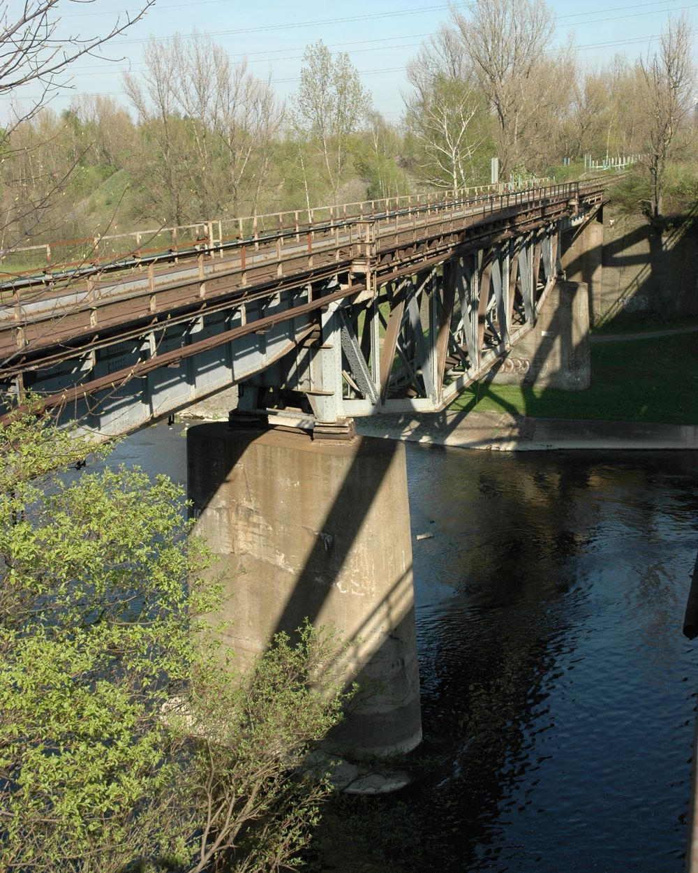 Railway bridge above Ostravice river, railway siding between Vítkovice iron works and Nová huť iron works, Ostrava, Czech Republic